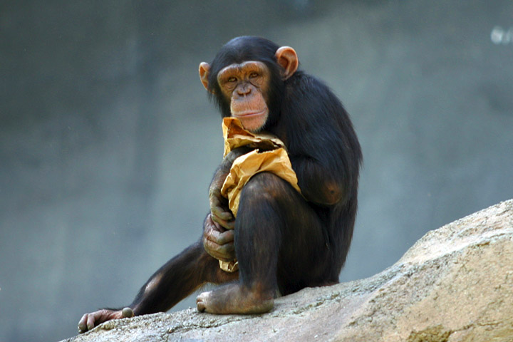 Chimpanzee, taken at the Los Angeles Zoo.